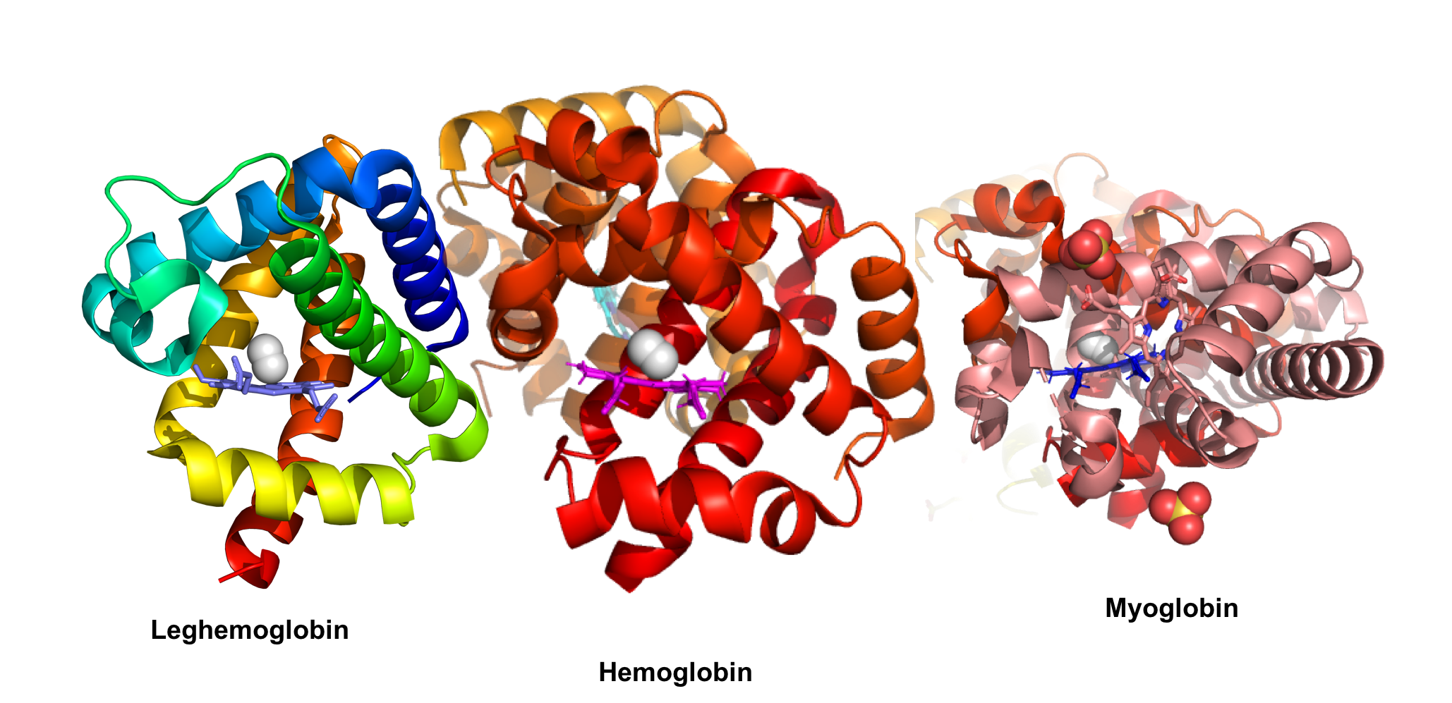 Cartoons of three oxygenated globin molecules- leghemoglobin, hemoglobin, and myoglobin. Oxygen molecules are shown in gray.